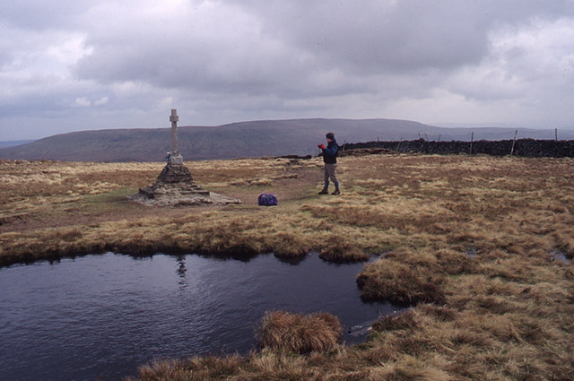 Memorial Cross and environment, Buckden Pike